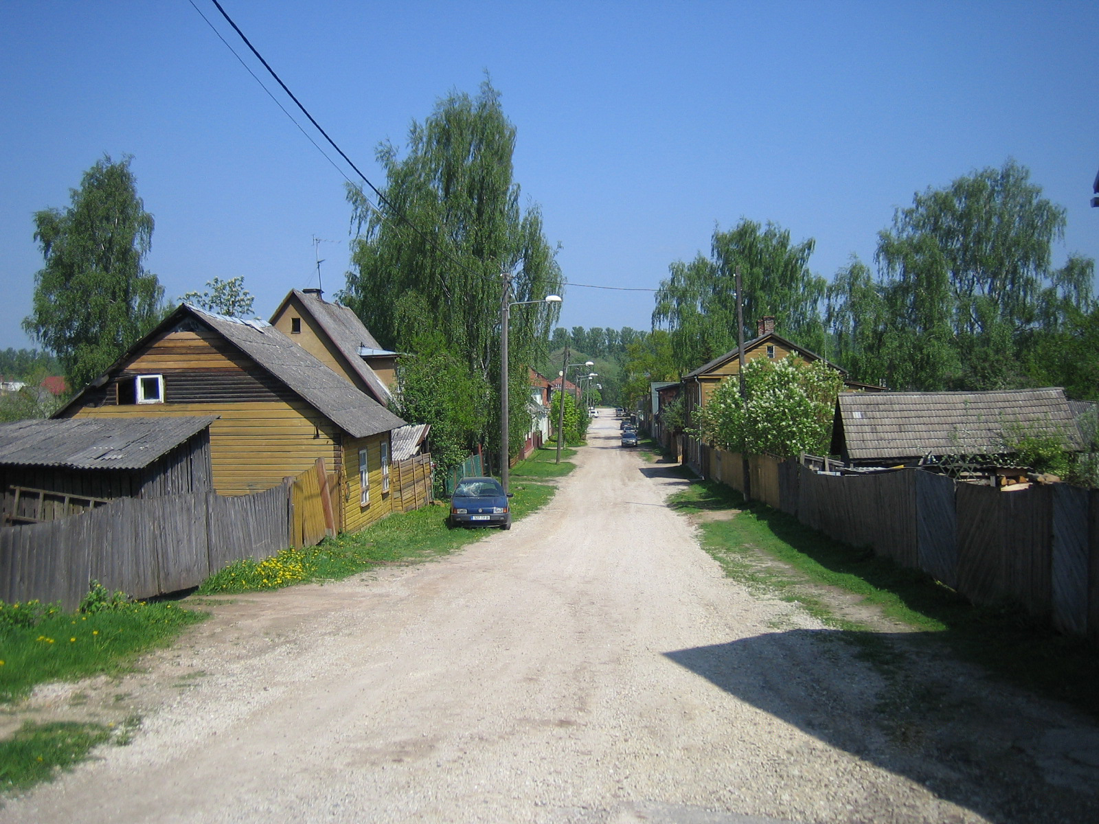 Tartu, Supilinn Quarter, Meloni Str in early summer